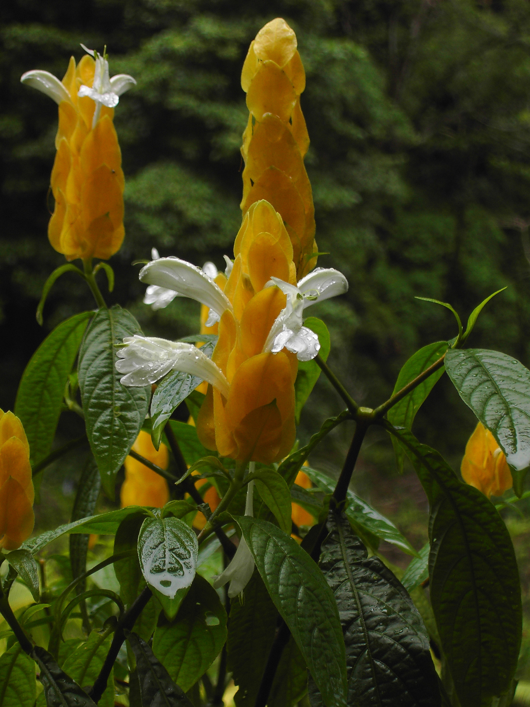 at Trafalgar Falls, Dominica, W.I.